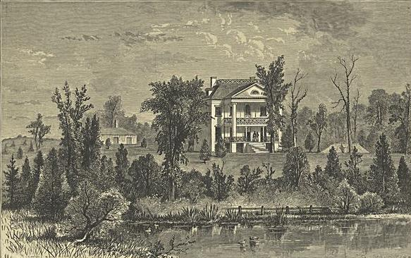 Residence of Aaron Burr, Richmond Hill, New York